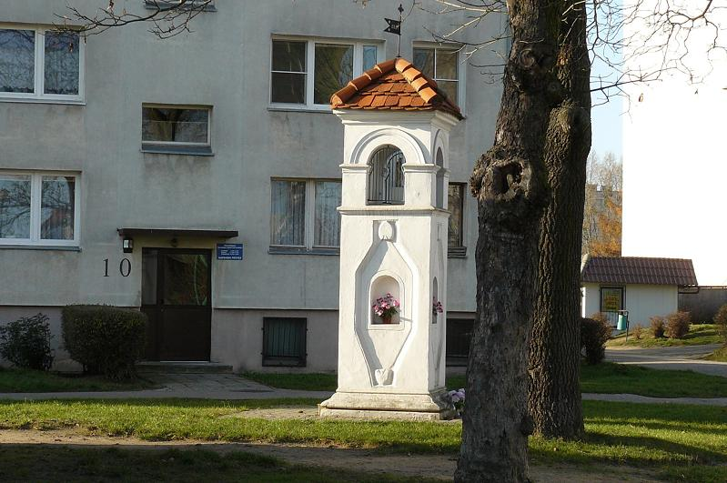 Chapel in Winiary District of Poznan.